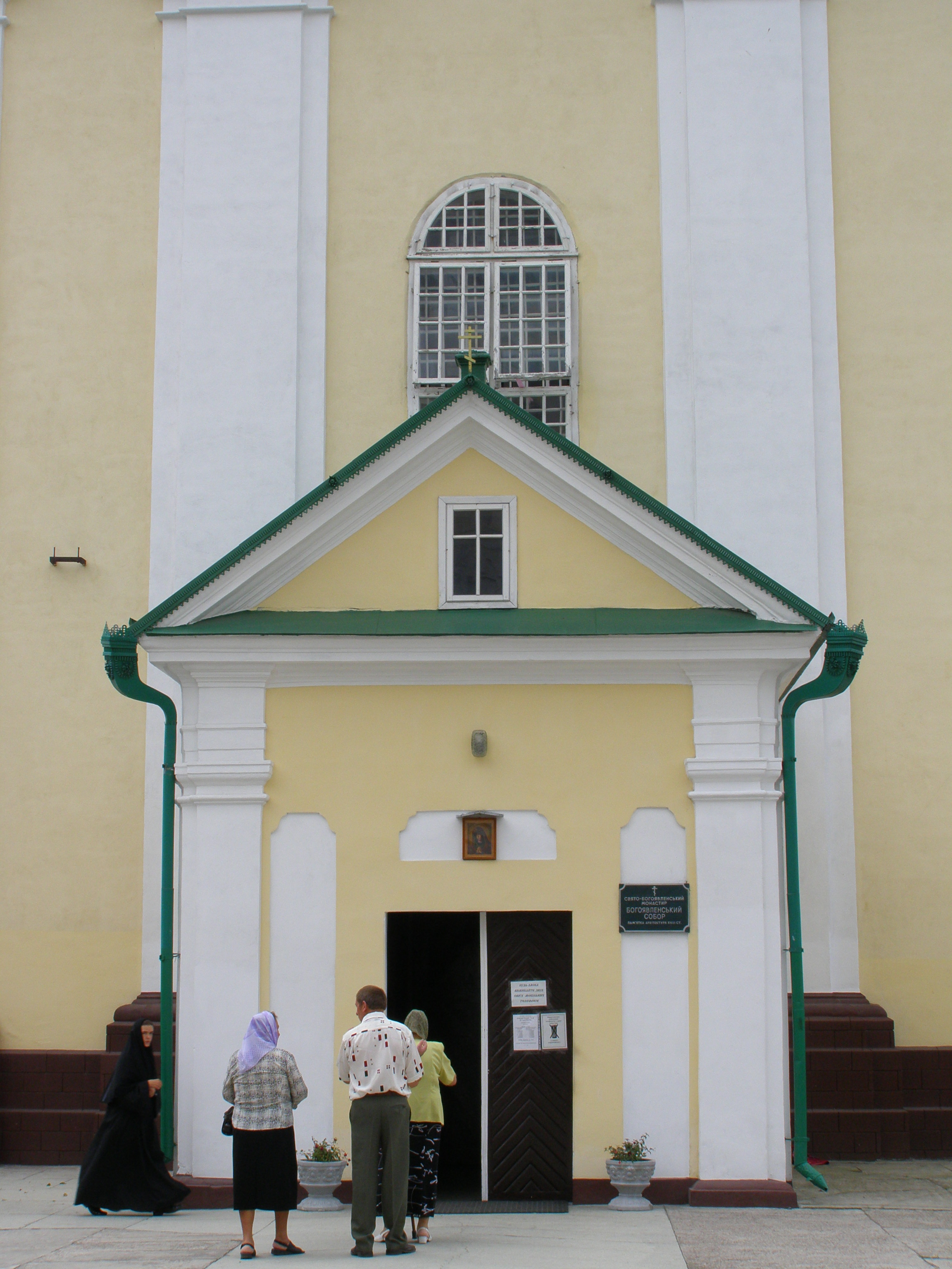 Kremenets, Monastery of Ukrainian Orthodox Church